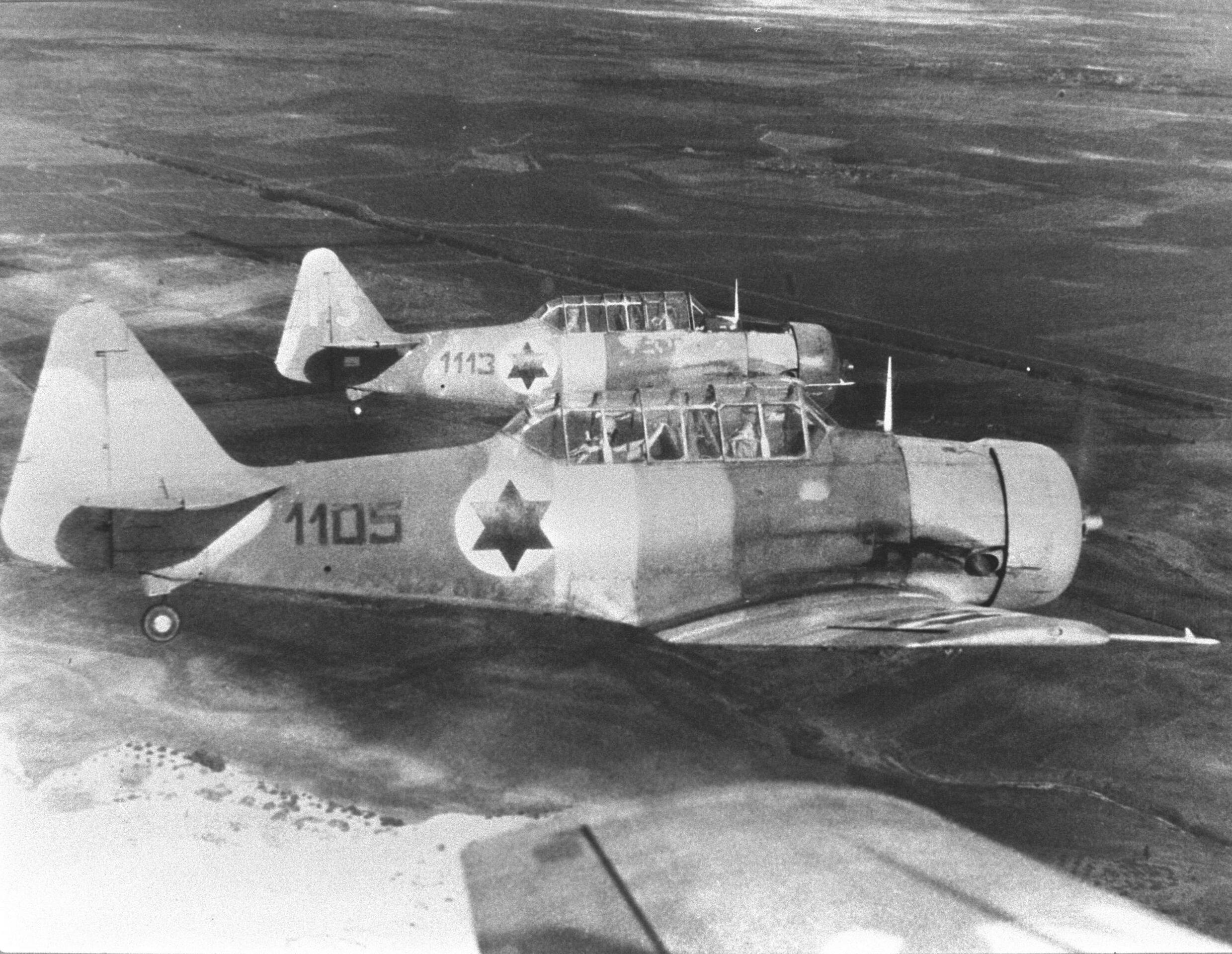 Israel Air Force Harvard planes